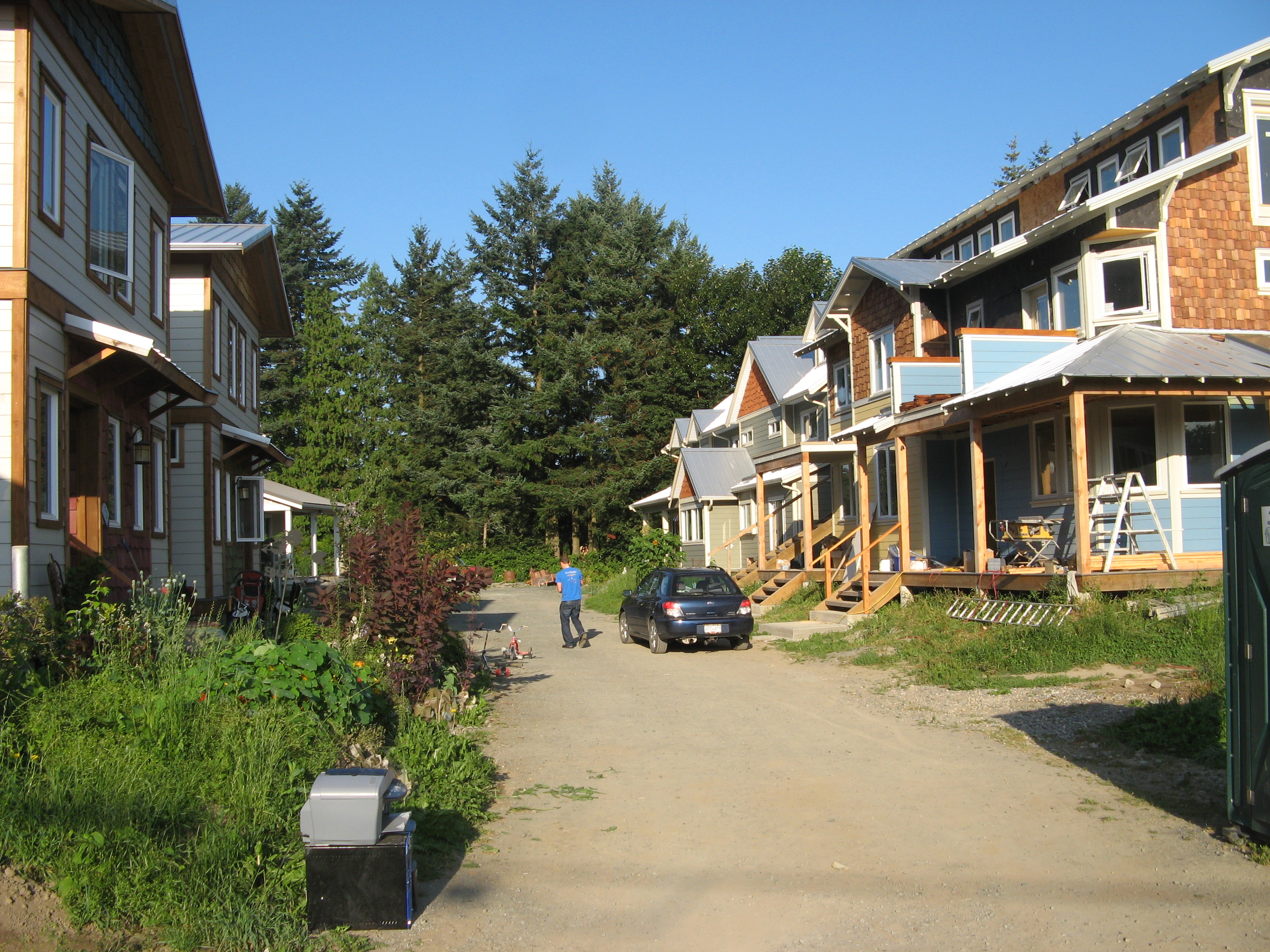 Image shows the newest of the first 15 units built